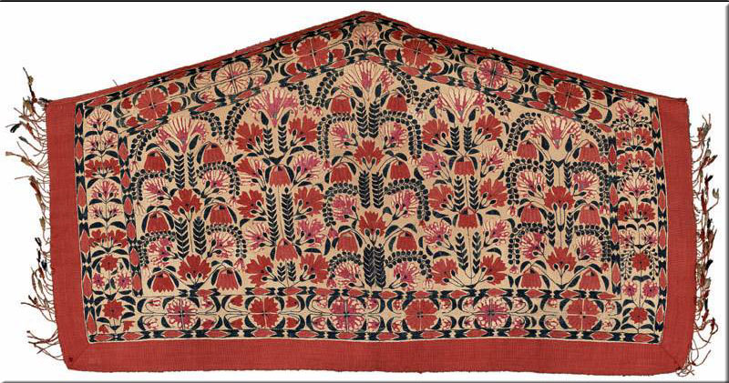 A Tekke Embroibered Asmalyk, WEST TURKESTAN MEASUREMENTS approximately 2ft. 10in. by 4ft. 11in. (0.86 by 1.50m.) DESCRIPTION mid-19th century original applied outer border with multi-colored tassels, losses to silk embroidery, fabric backed.